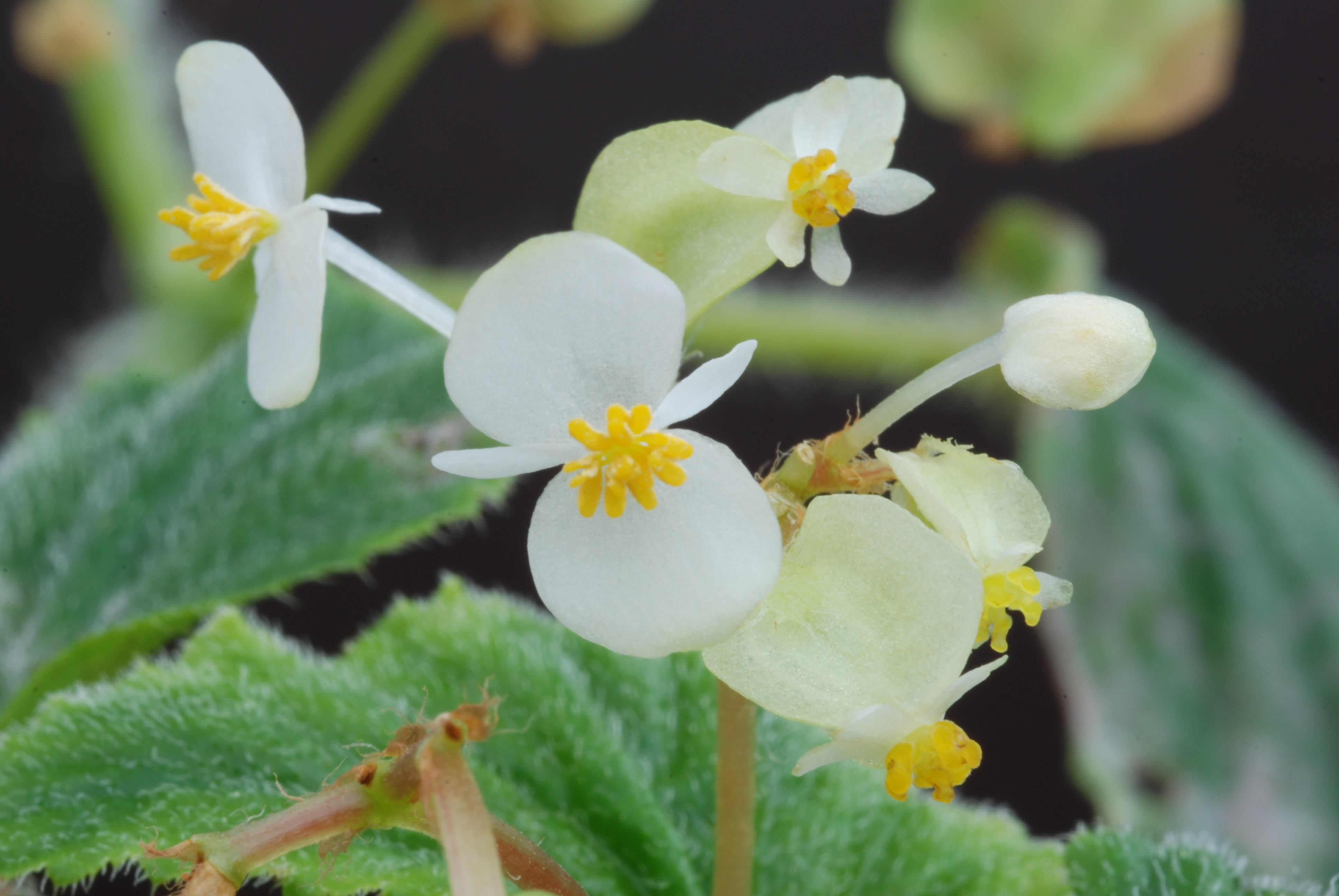 Begonia hirtella Link Family : Begoniaceae Accession : 20071181-38 National Botanical Garden of Belgium Meise Botanic Garden Native nameNationale Plantentuin van België / Jardin Botanique National de BelgiqueLocationDomein van Bouchout / Domaine de BouchoutNieuwelaan 381860 MeiseBelgiumCoordinates50° 55′ 42.28″ N, 4° 19′ 36.78″ E Established1826: established, 1870: became publicly owned,Web page control : Q3052500 VIAF: 159423716 ISNI: 0000 0001 2195 7598 LCCN: n50078011 NLA: 35880480 SELIBR: 120680 WorldCat institution QS:P195,Q3052500 Created under the volunteer photographer program at the National Botanical Garden of Belgium.